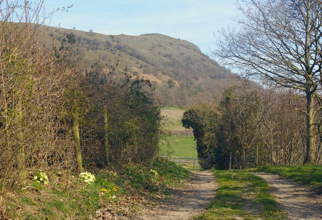 Earl Hill from the South at Easter